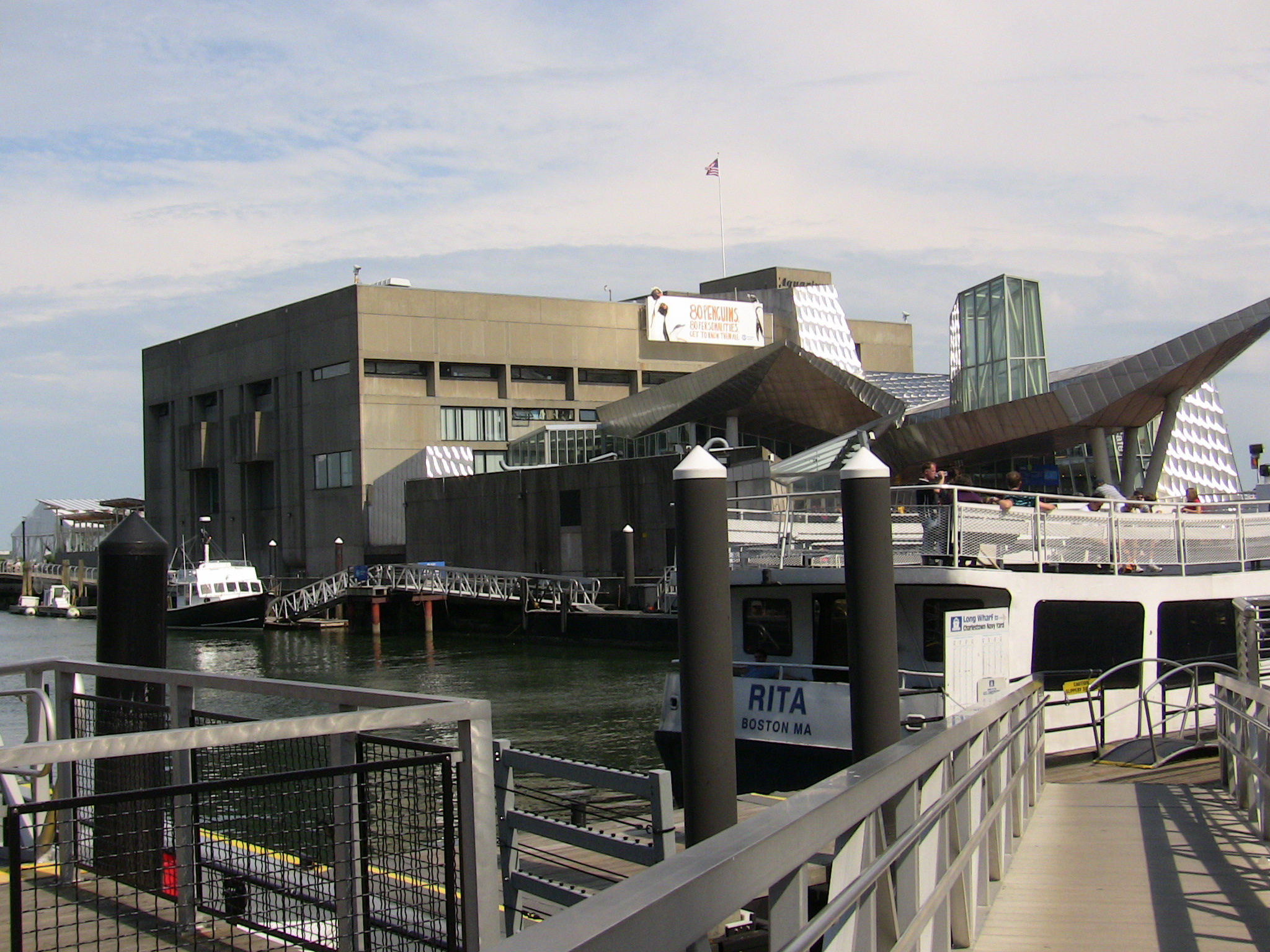 The New England Aquarium, located on the Harborwalk, Boston MA